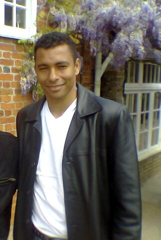 A photo of of Gilberto Silva I took myself.